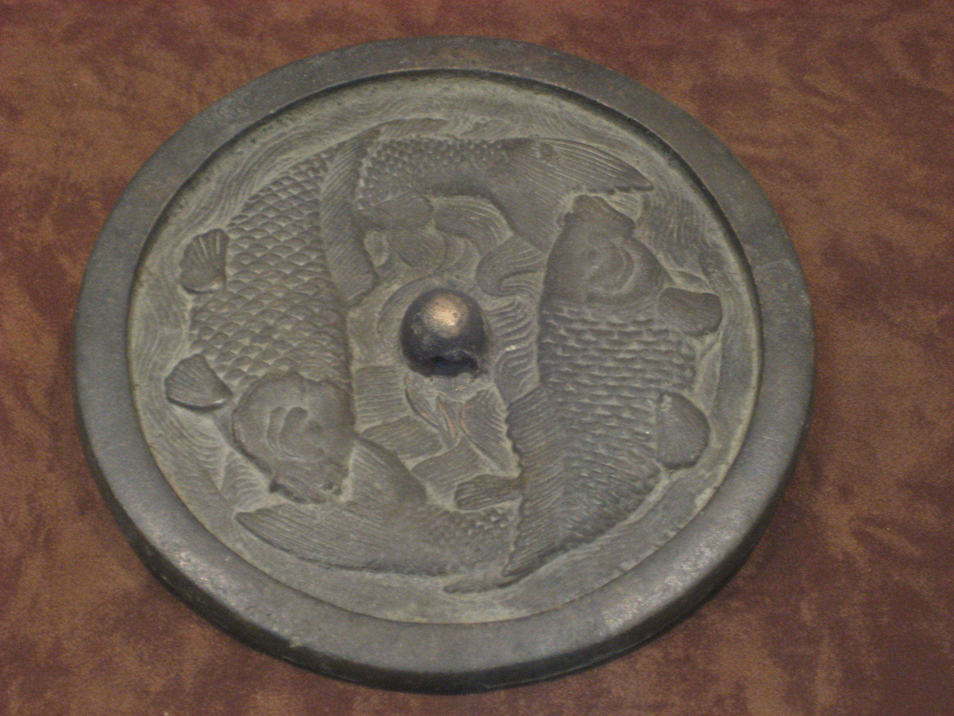 Bronze mirror with double fish pattern. Jin Dynasty (1115-1234).